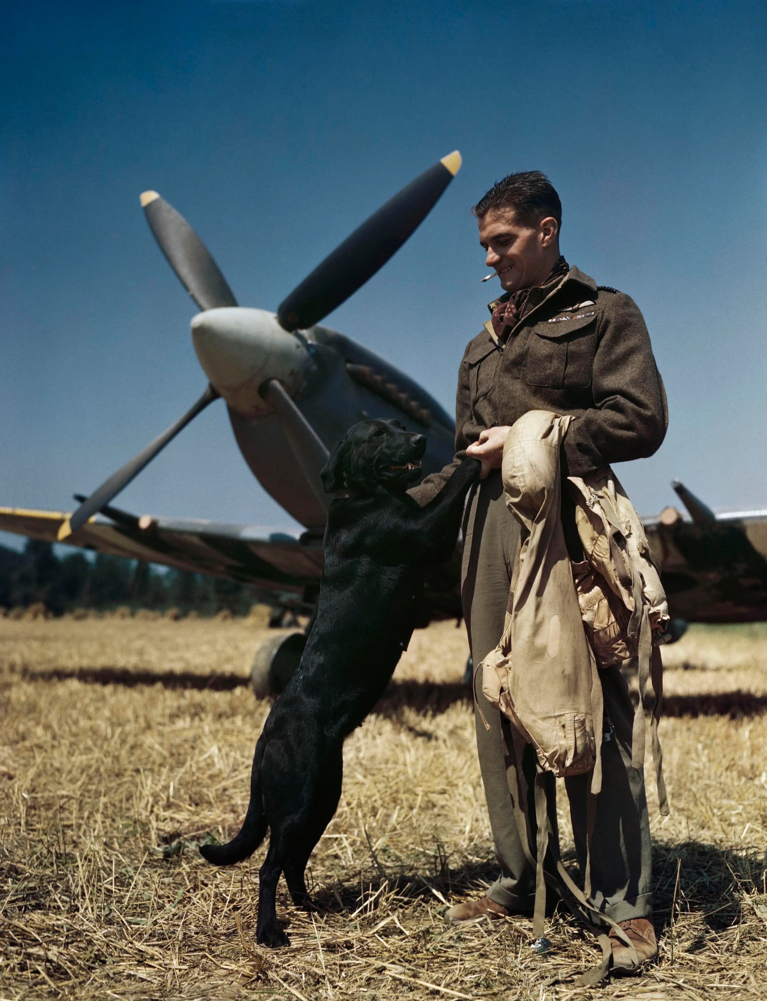 Wing Commander James E 'johnny' Johnson at Bazenville Landing Ground, Normandy, 31 July 1944 The RAF's top scoring fighter pilot flying in north west Europe, Wing Commander Johnny Johnson, seen with his pet Labrador dog 'Sally'. He recorded 38 victories, though at the time of the photograph his total was 35. He commanded No 127 Wing composed of three Canadian Spitfire squadrons. The decorations on his tunic are a DSO with two Bars and a DFC with one Bar.